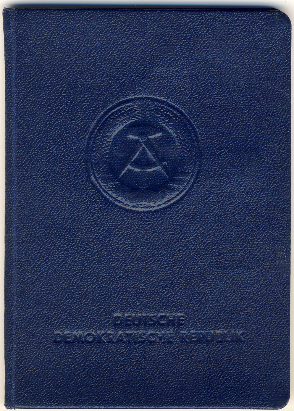 Identity card of the German Democratic Republic; issued in 1954.